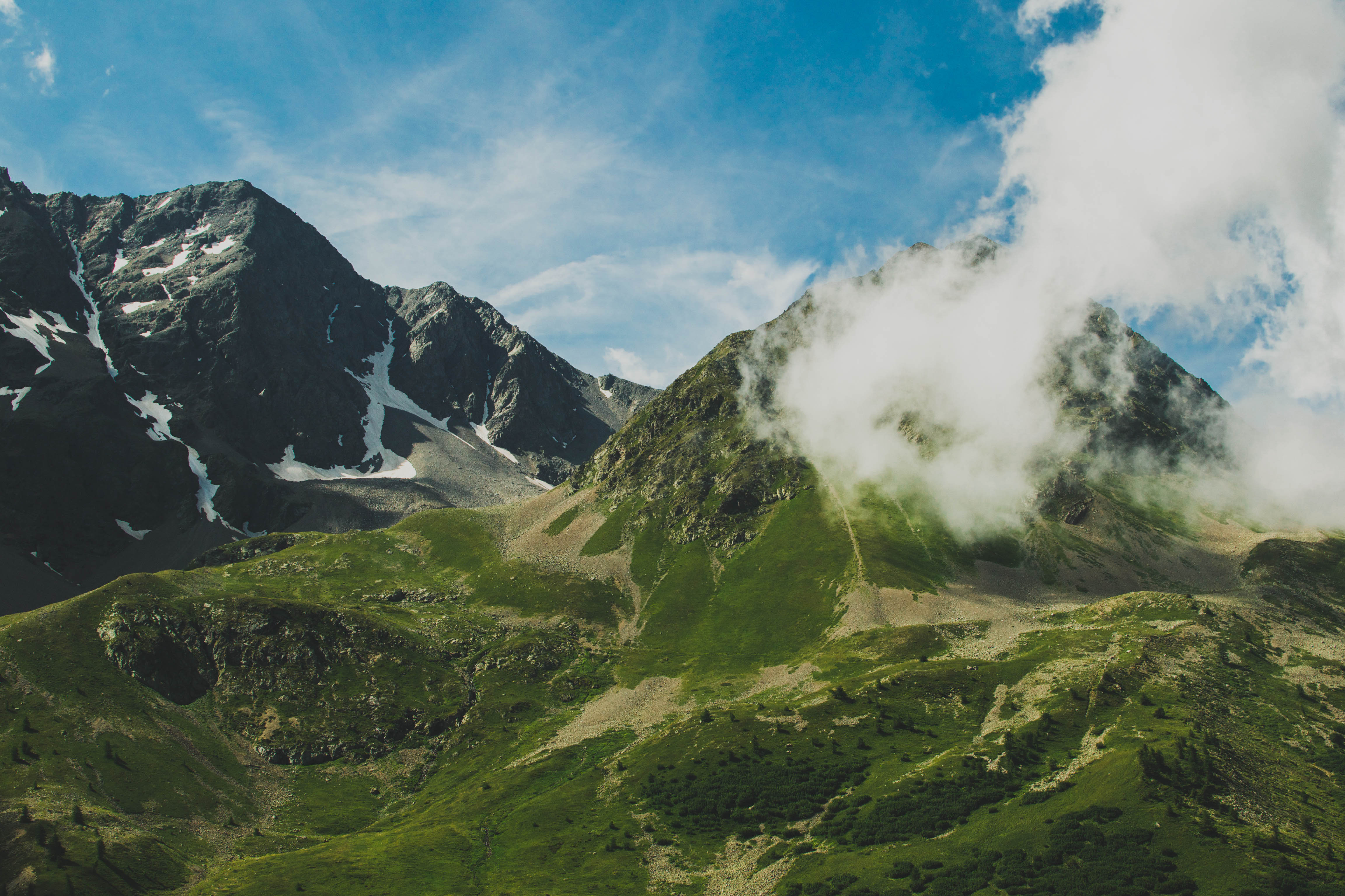 Meije, La Grave, France